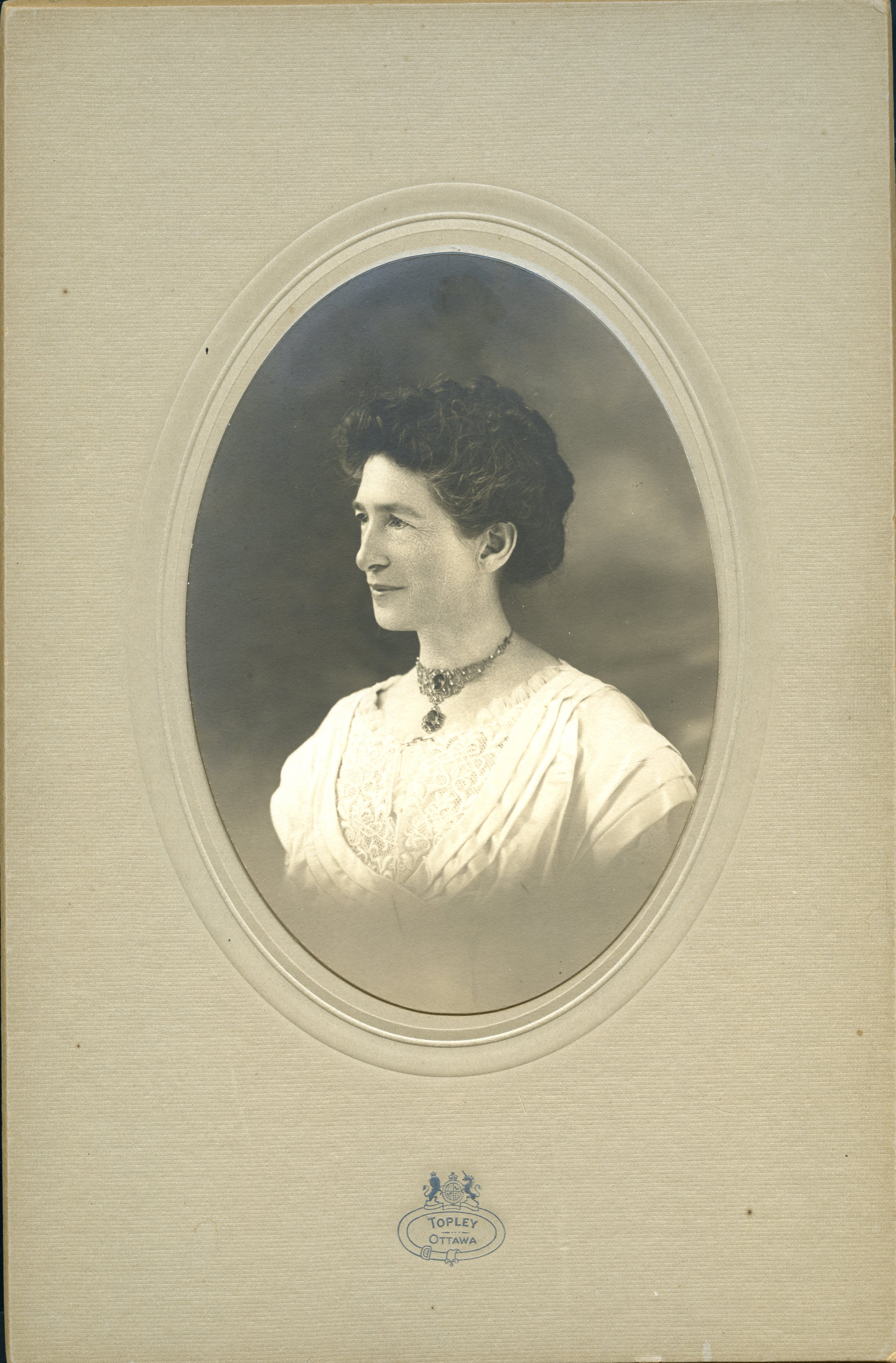 Studio portrait of Elizabeth Smith Shortt, ca. 1910, taken by William James Topley in Ottawa.